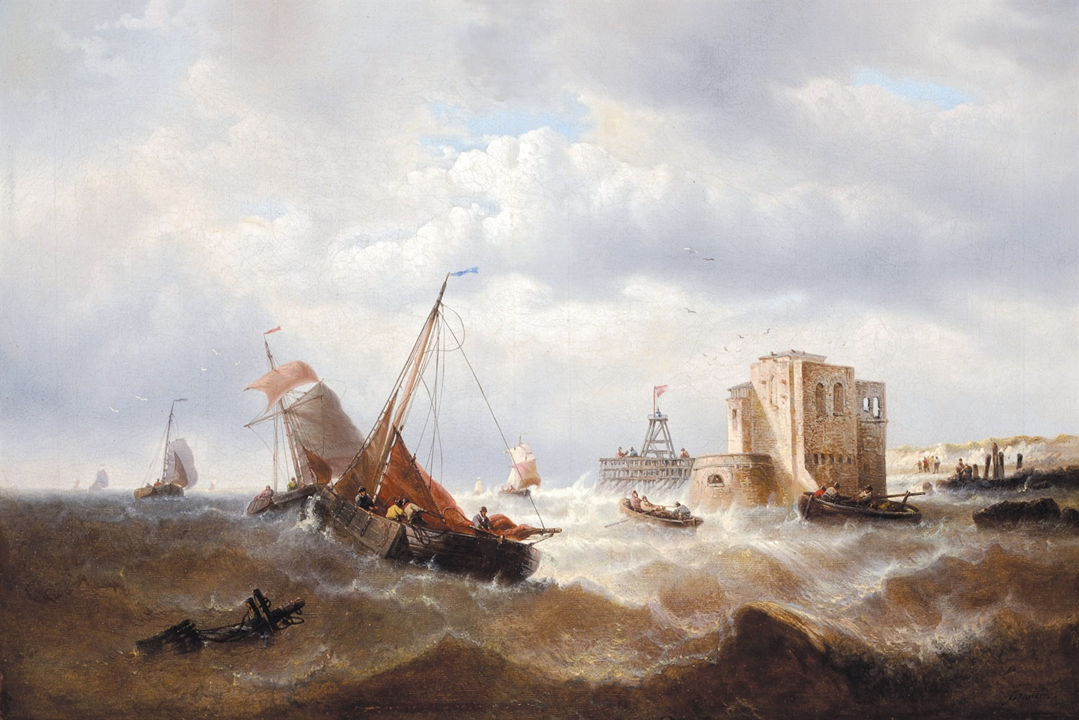 BOATS ON CHOPPY WATER ChiShona: BATEAUX SUR MER AGITEE